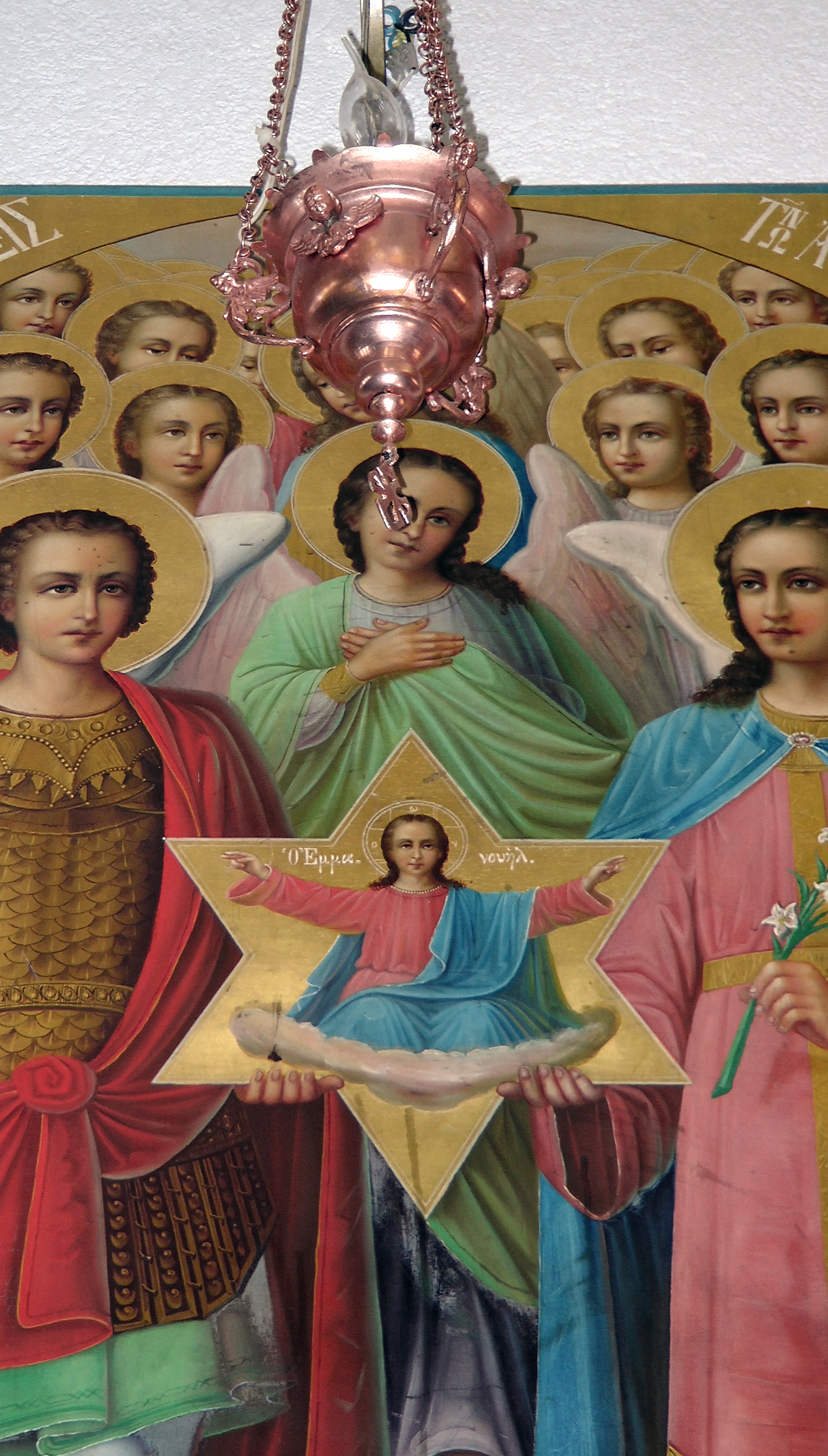 Saint Nikola church in Krusevo, Macedonia: icon with Jesus in a hexagram